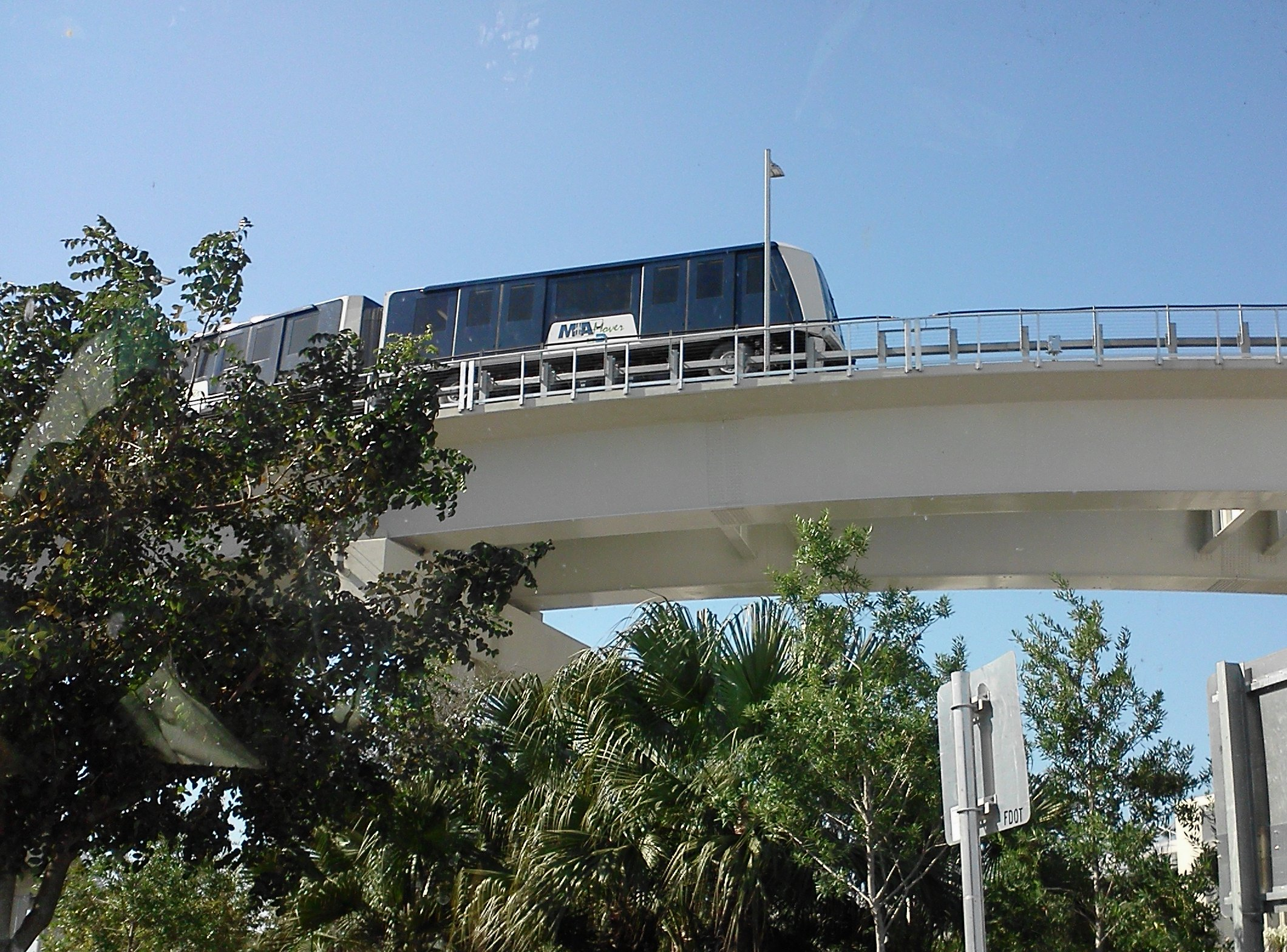 The MIA Mover approaching the Miami Intermodal Center.